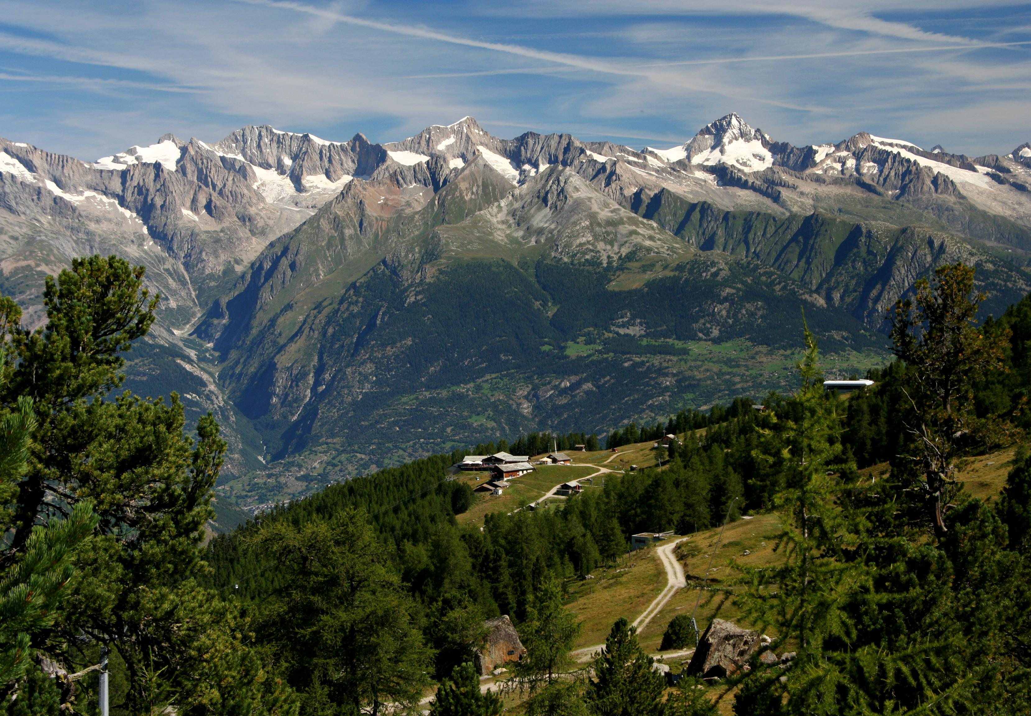 View from Hannigalp above Grächen toward north. On the left the valley of Baltschiedertal and the Aletschhorn on the right.